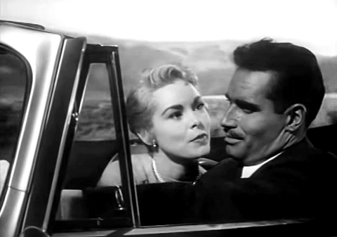 Screenshot of Janet Leigh and Charlton Heston from the trailer for the film Touch of Evil